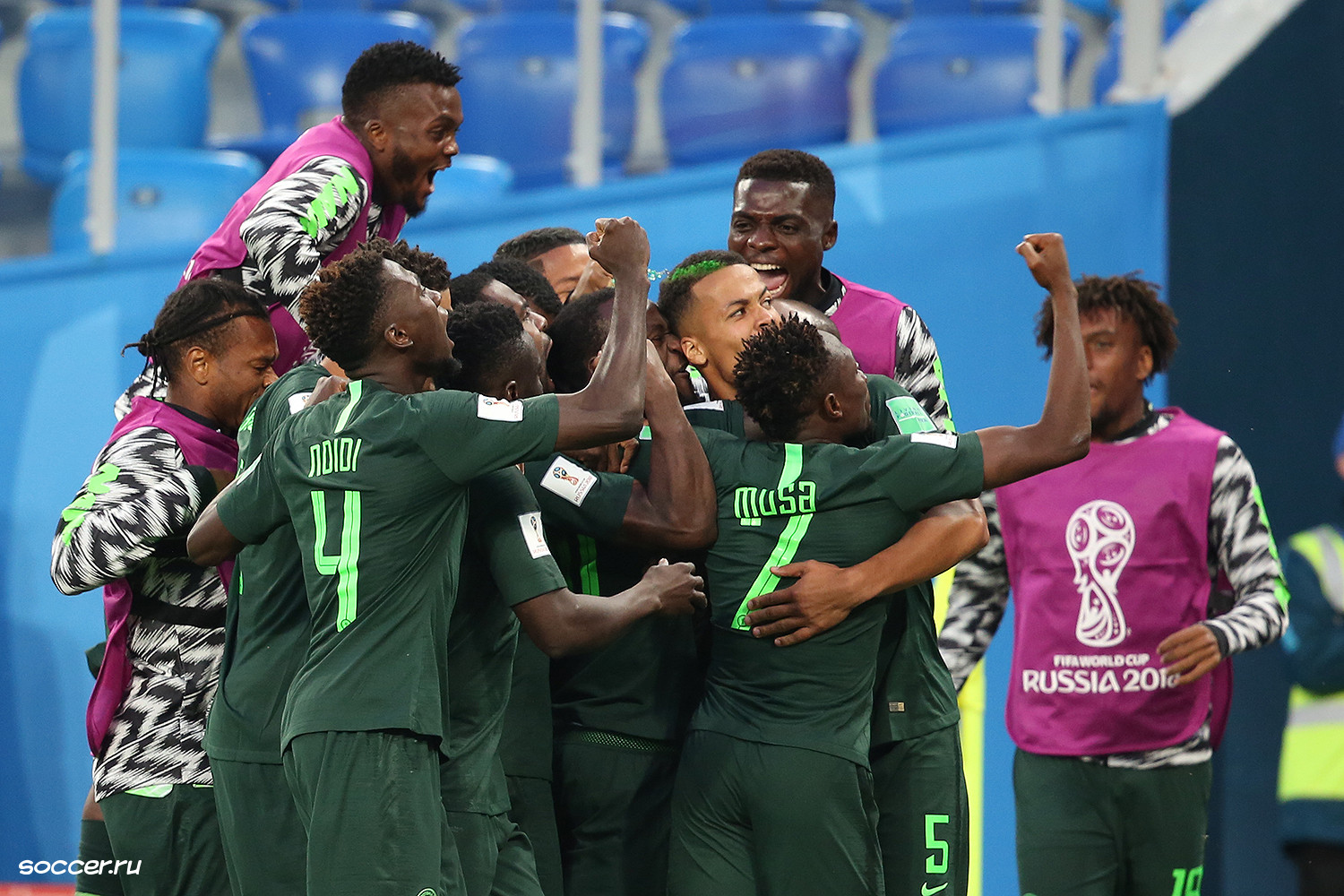 Nigeria celebrates after Victor Moses's penalty